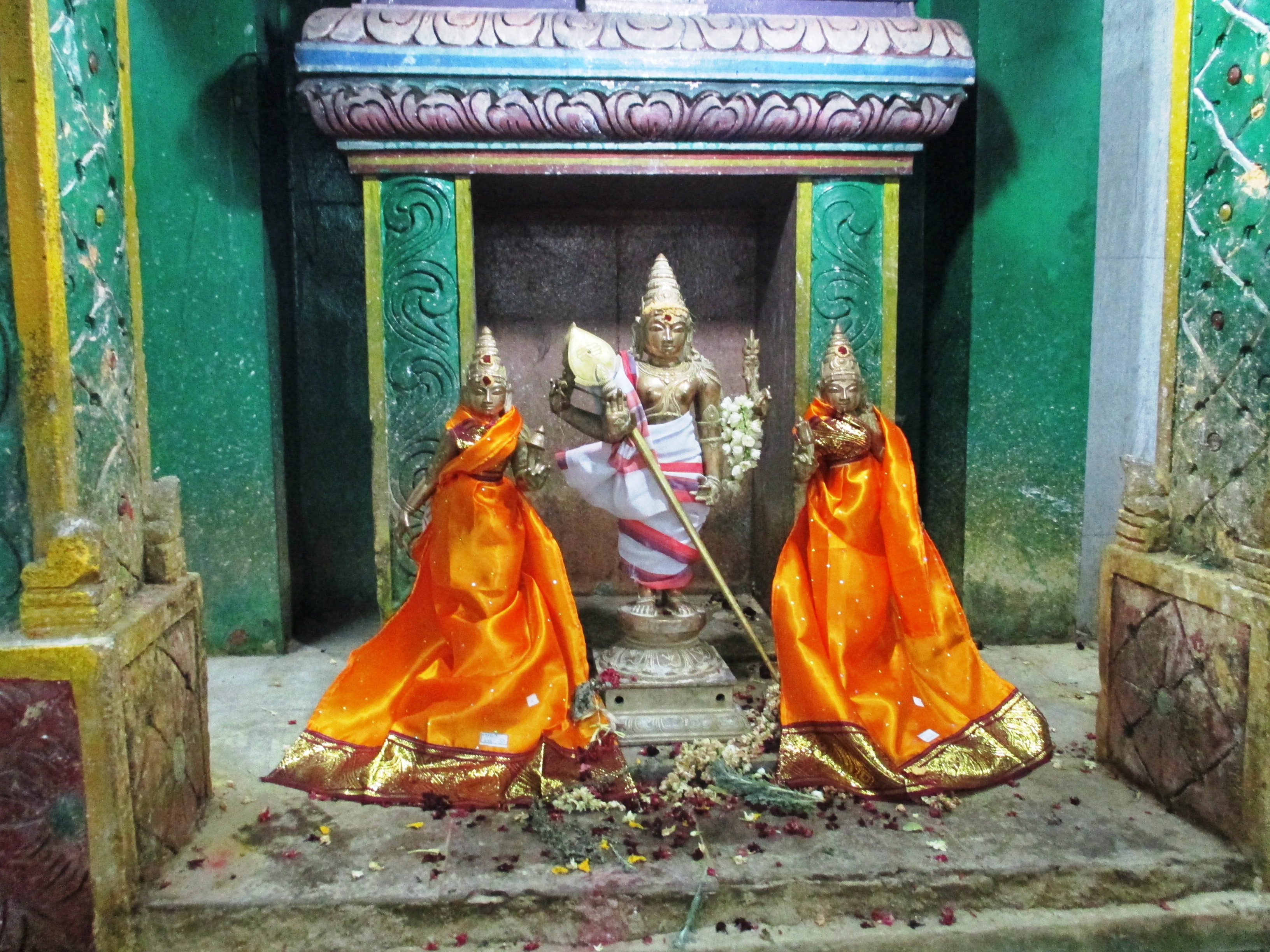 Vayalur Murugan temple